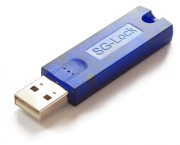 USB software protection dongle, SG-Lock Copy Protection System (described at